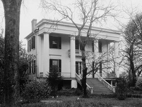 Robert Toombs House — 1797 house in Washington, Wilkes County, Georgia. Image: HABS—Historic American Buildings Survey of Georgia, (cropped).